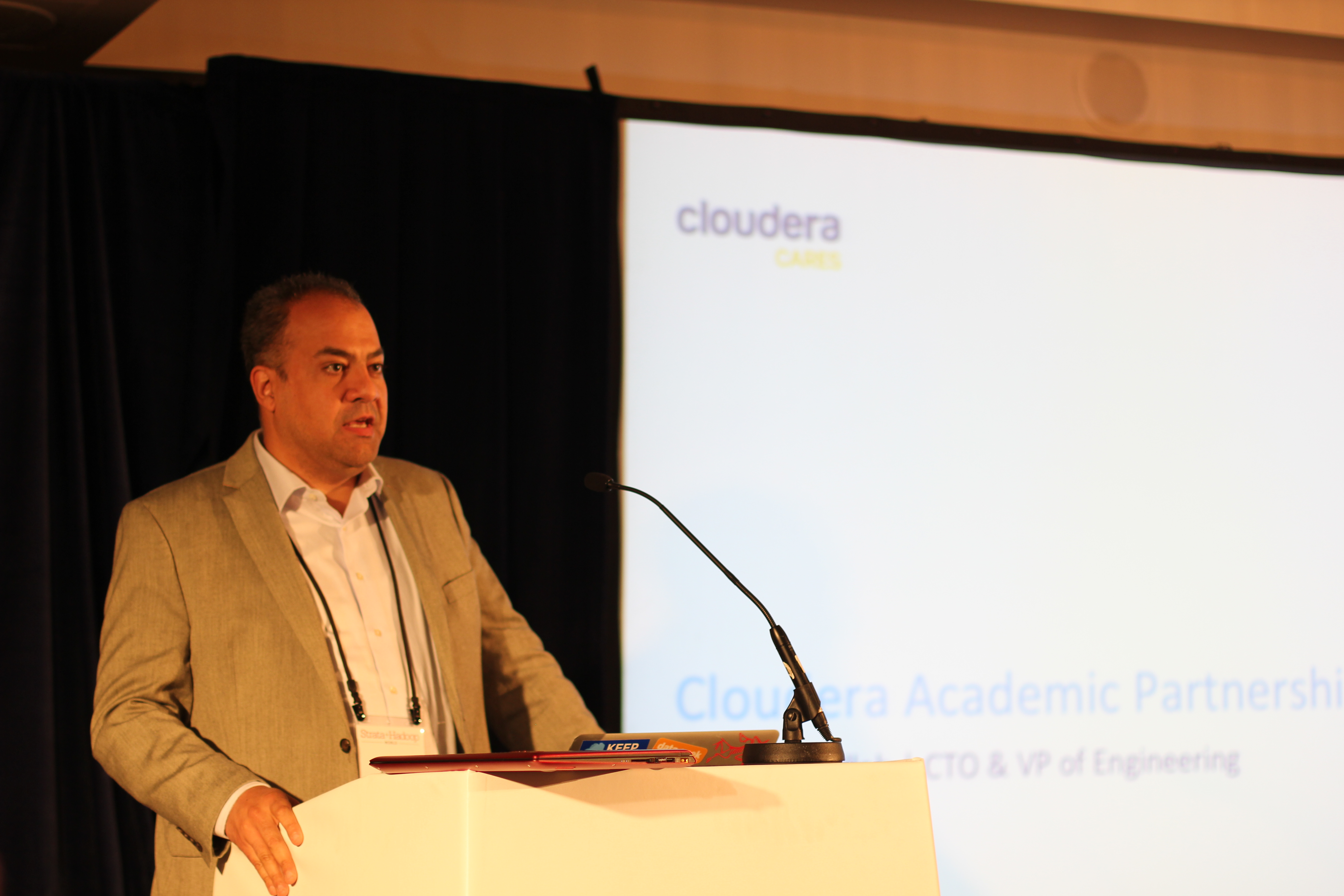 Amr Awadallah during Cloudera Cares, DataKind Meetup